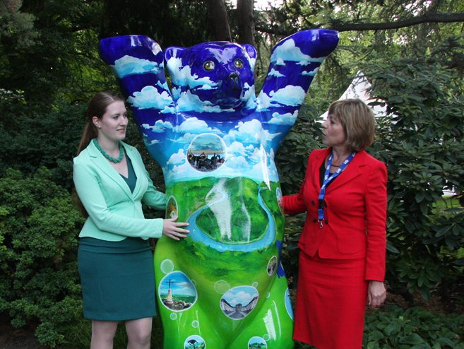 Buddy Bear of Saarland, designed by Isabelle Schmitt